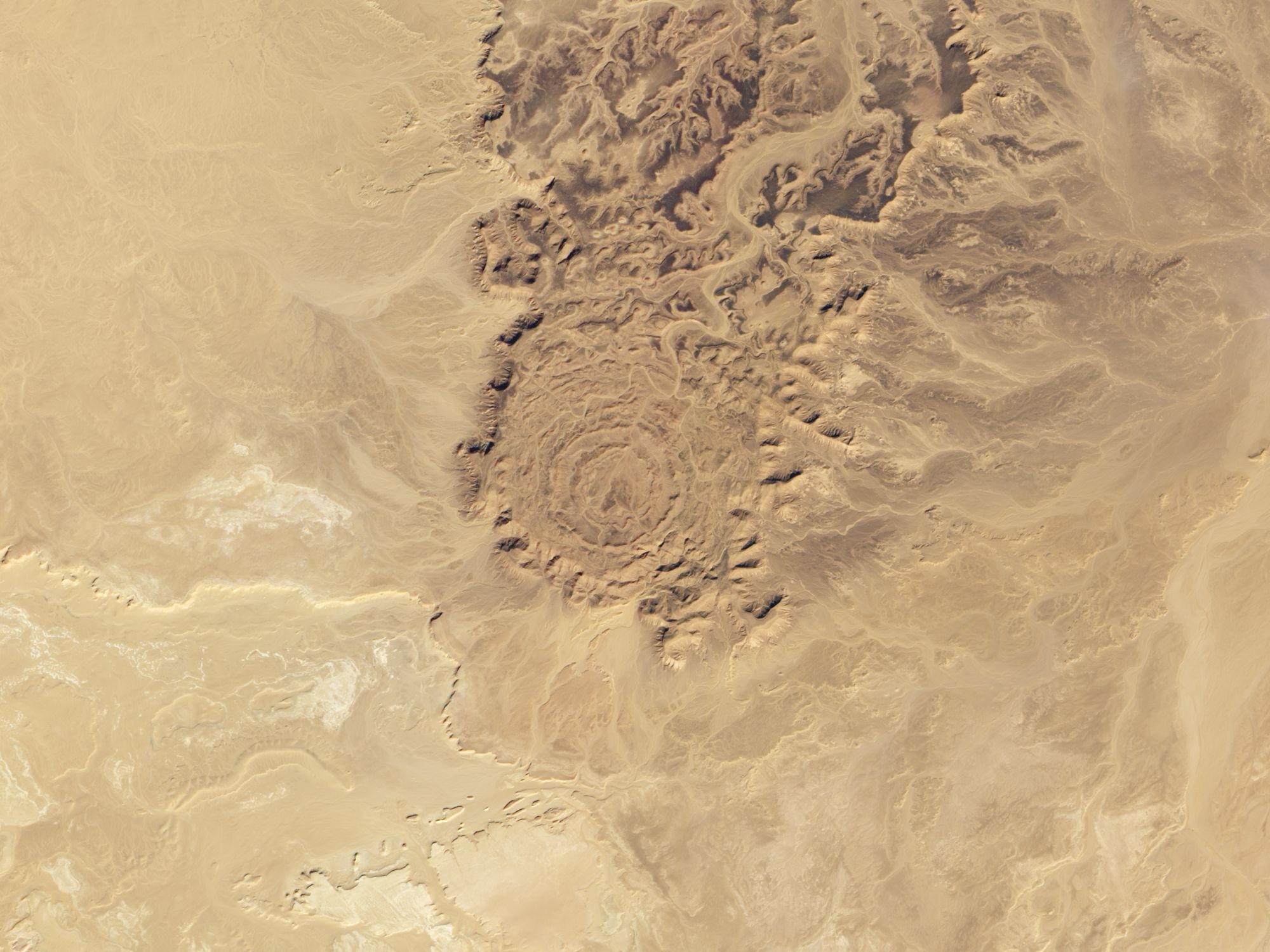 Natural-colour image of Tin Bider Crater. The desert surface appears in shades of tan, camel, beige, and brown. Sunlight leaves north-facing slopes in shadow. In fact, the angle of the Sun can play an optical illusion. The crater certainly looks as if it sits at a lower elevation than the surrounding land, but it doesn’t. The angle of sunlight is from the south, and Tin Bider actually rises above the land to the south, east, and west.